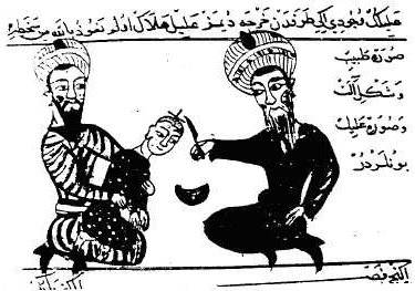 Incision and evacuation of hydrocephalus. Note the reversed T-type incision and wide and sharp pointed scalpel. Illustration from Cerrahiye-i Ilhaniye, Şerafeddin Sabuncuoğlu XIV-century medicine book